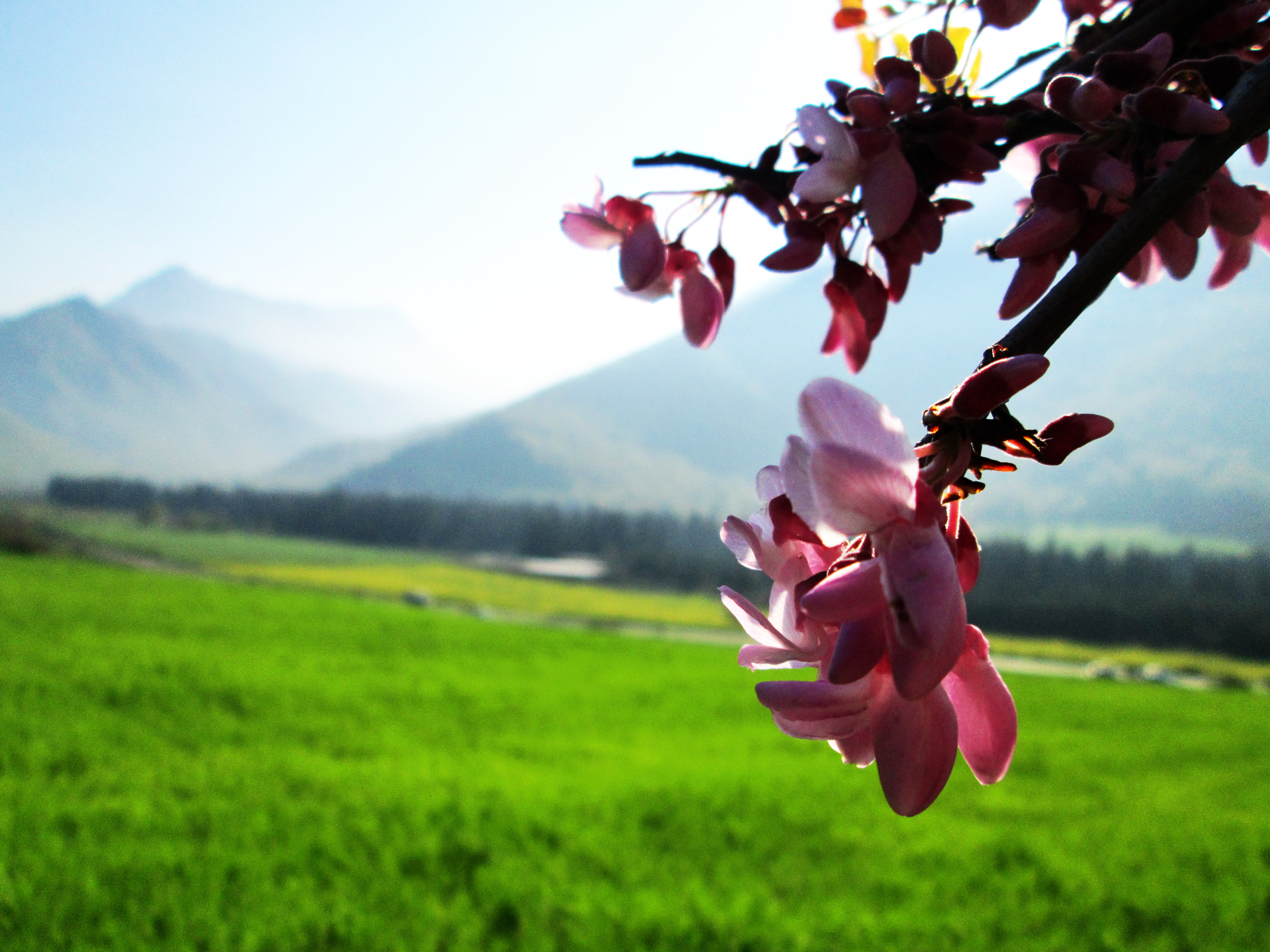 بهار پر گل رامیان